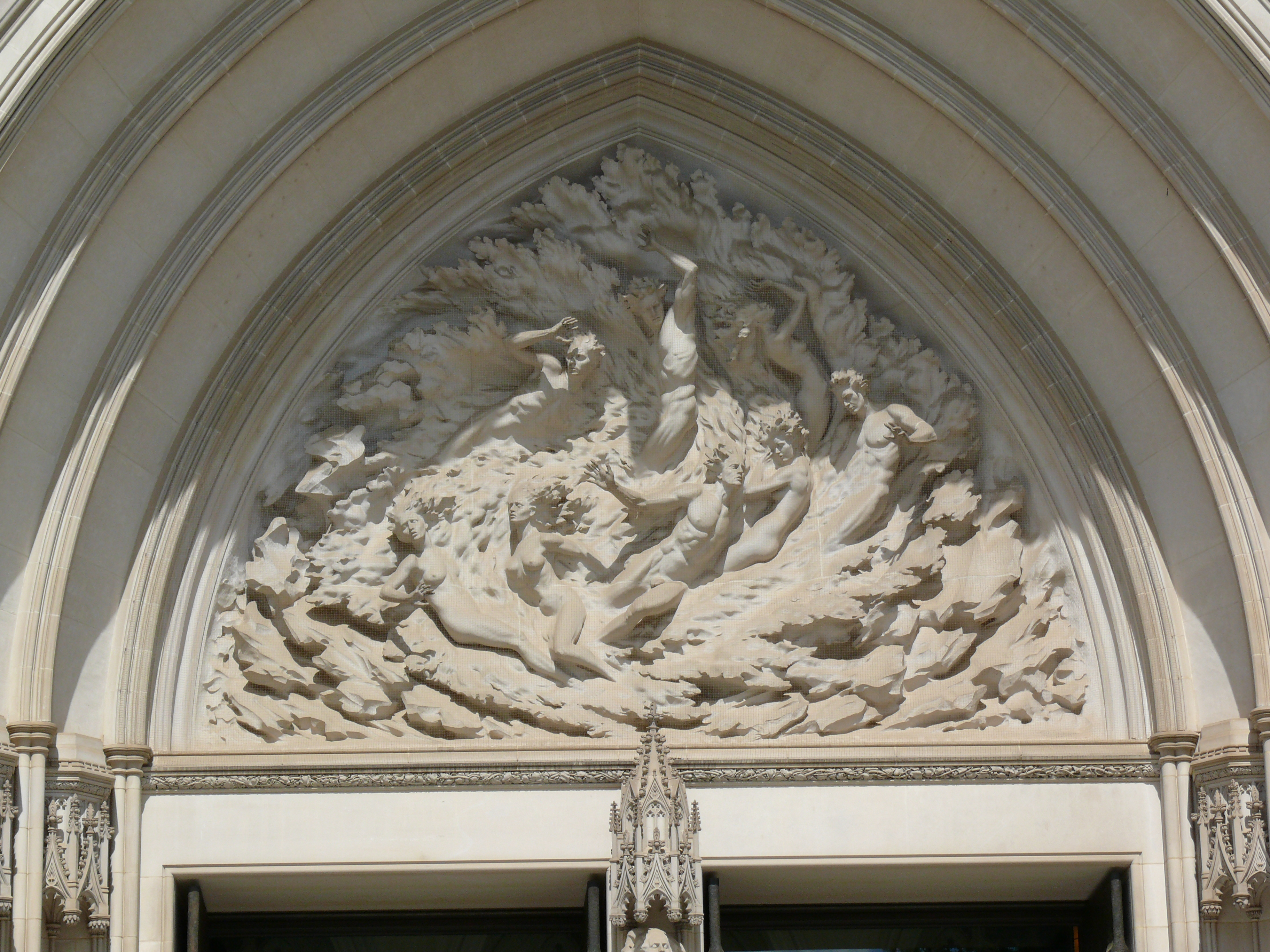 Washington National Cathedral (Cathedral Church of Saint Peter and Saint Paul, located at 3101 Wisconsin Avenue, NW) entrance.